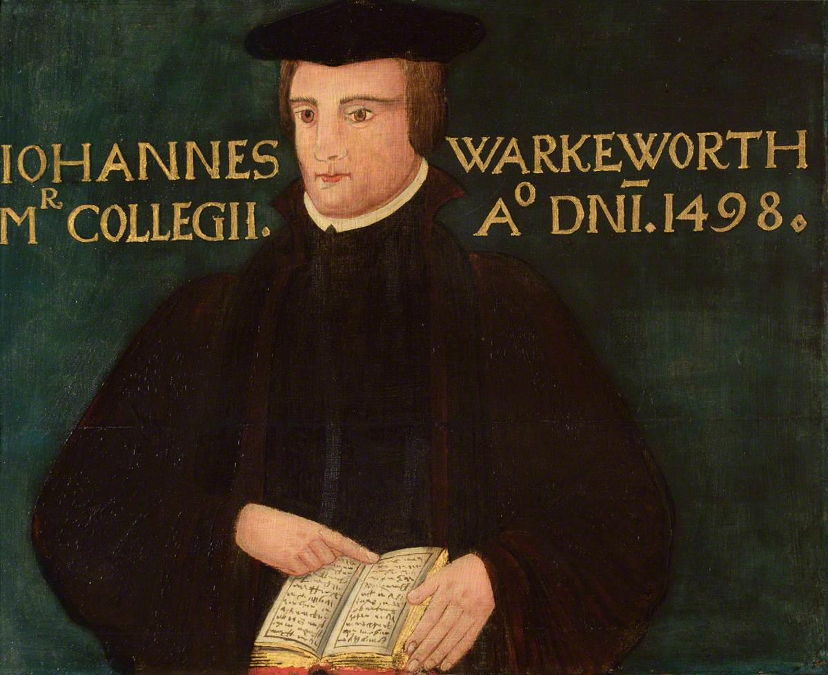 John Walkworth, Master of Peterhouse, Cambridge